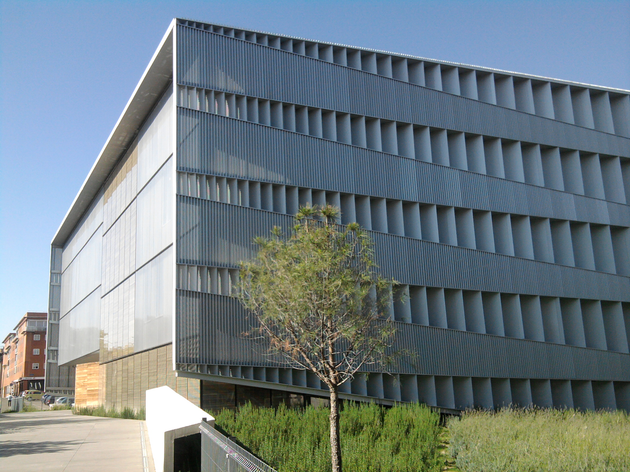 Provincial Historic Archive Building in Guadalajara, opened in late 2012.